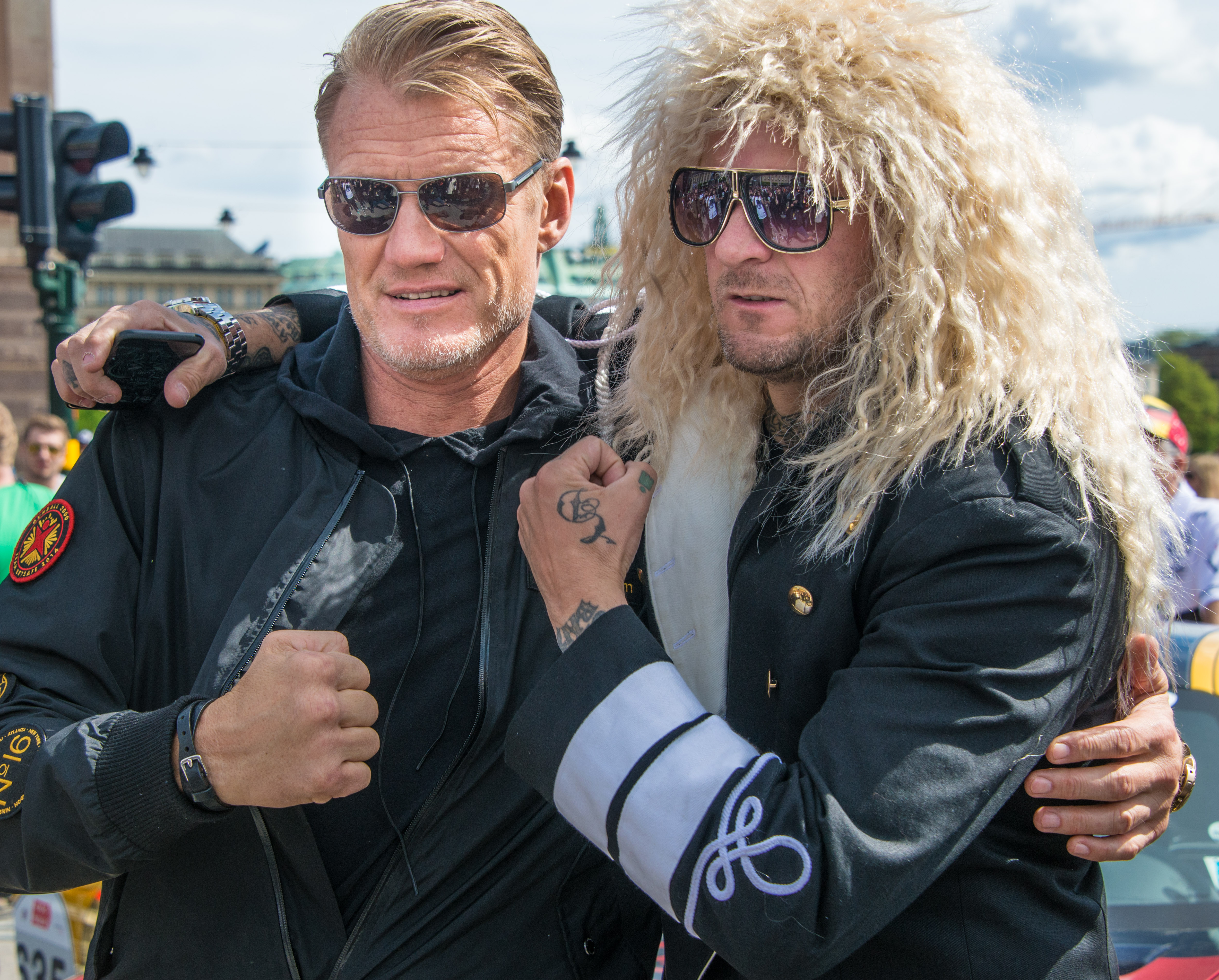 2015 Gumball 3000 starts from Stockholm, May 24 2015. Dolph Lundgren and Matthew Pritchard.